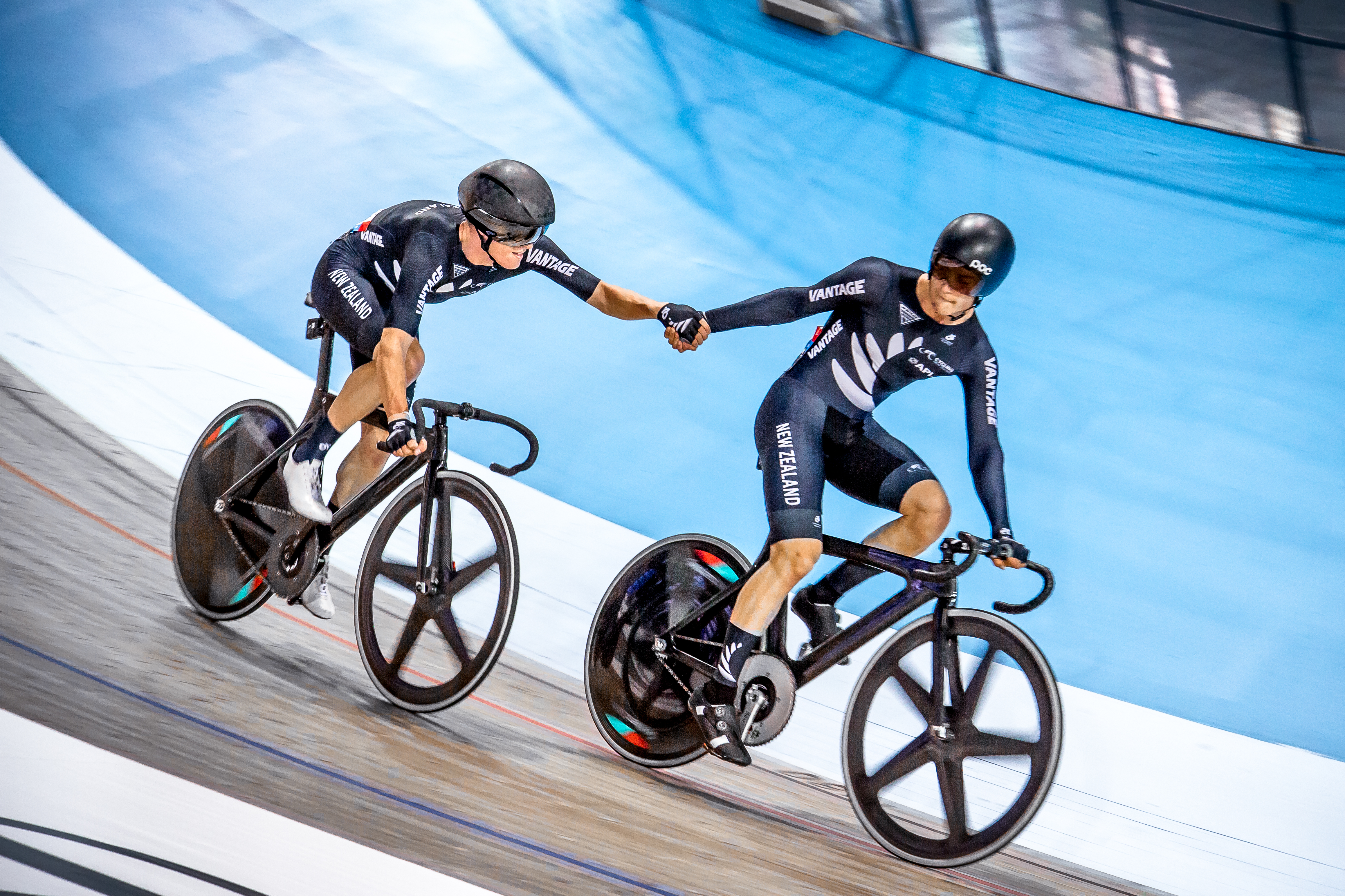 Thomas Sexton & Campbell Stewart of New Zealand. Men's 30km Madison. UCI Track World Cup, Milton, Ontario, Canada. 2017.